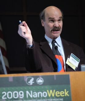 Mark Ratner, Professor of Chemistry and Professor of Materials Science and Engineering at Northwestern University.